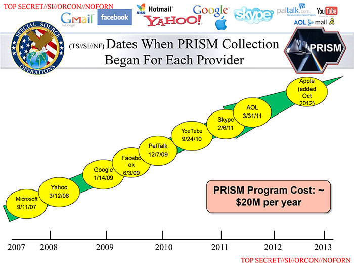 PRISM: Dates When PRISM Collection Began For Each Provider